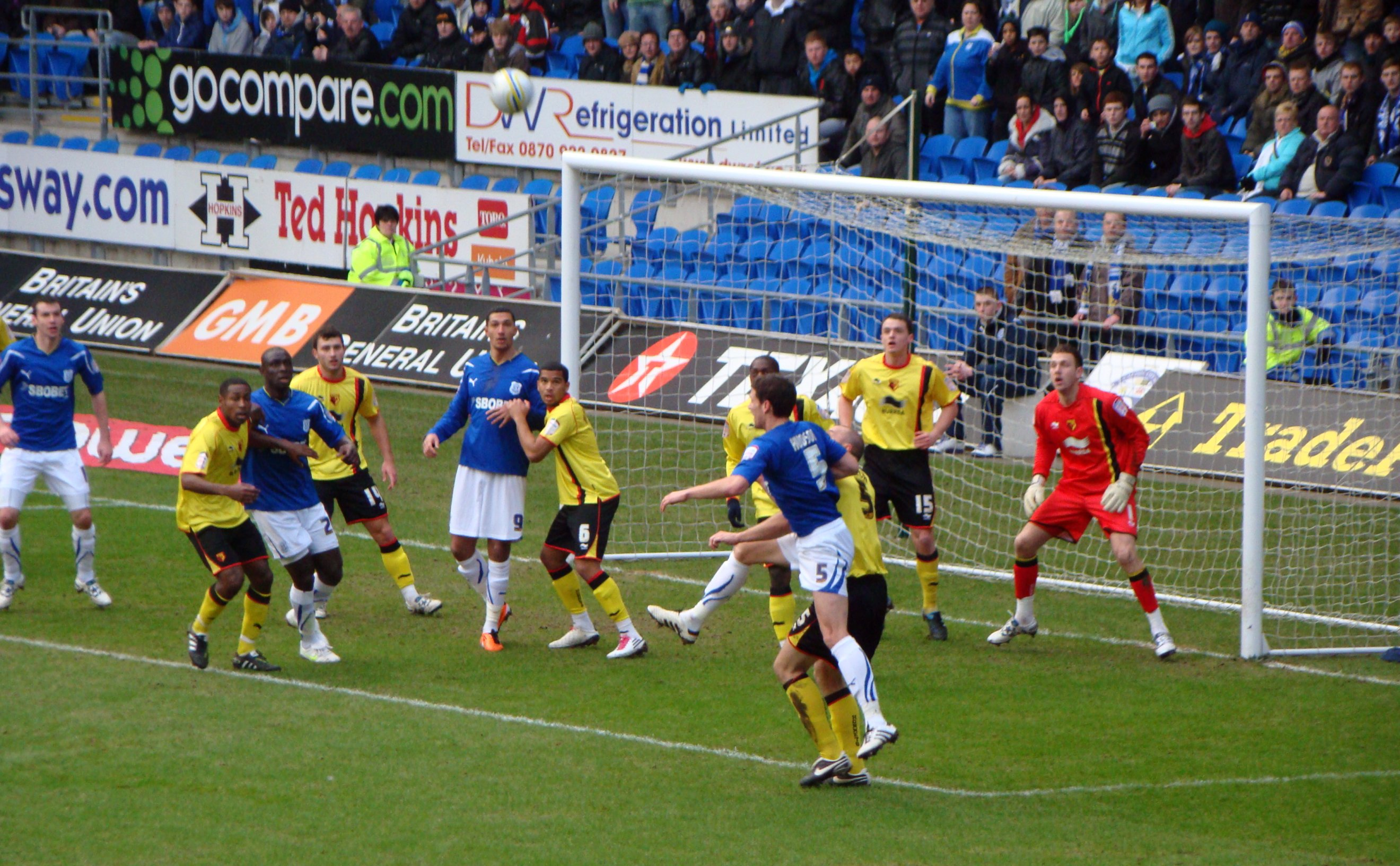 22/01/11 Cardiff V Watford, Championship, Cardiff City Stadium, Cardiff, Wales